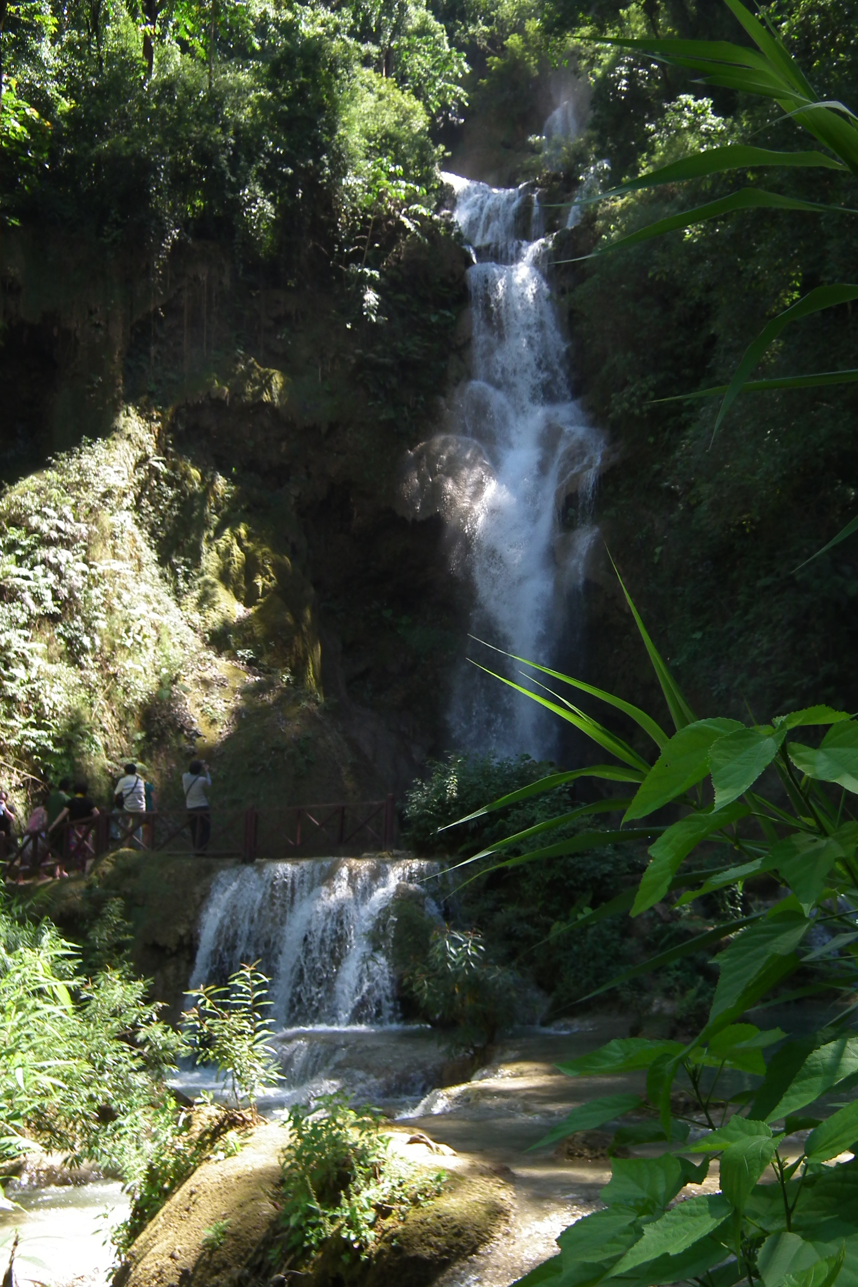 Kuang Si Waterfalls Luang Prabang Akiyosi Matsuoka